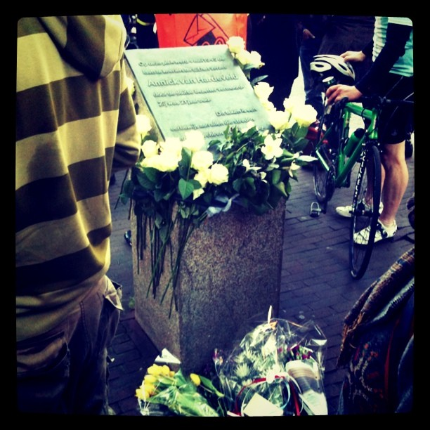 Anniek van Hardeveld memorial alleycat race held in Amsterdam on the 4th of may 2011 in memory of the dutch resistance courier Annick van Hardeveld.